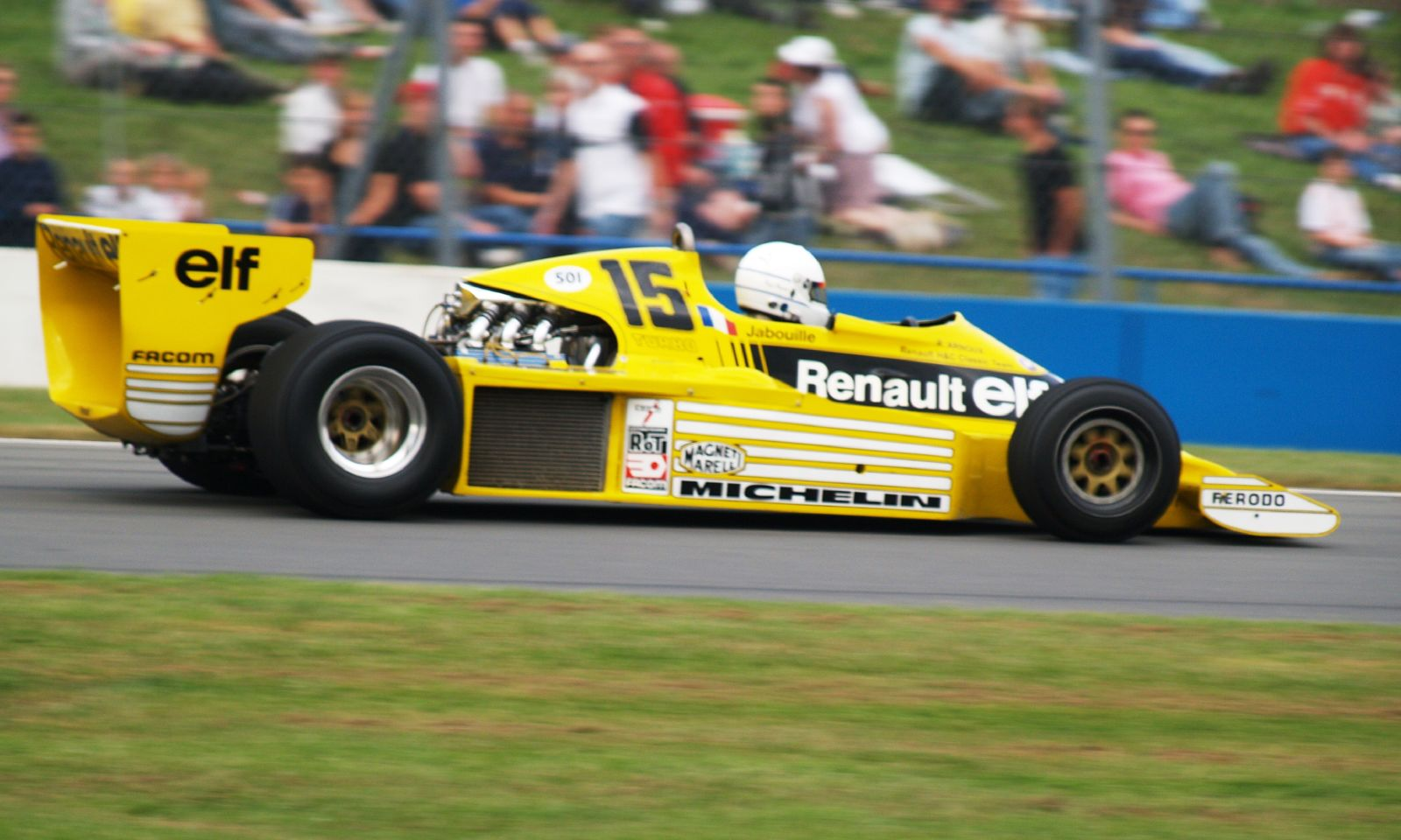 A Renault RS01 Formula One car being driven by Rene Arnoux during the World Series by Renault event at Donington Park, September 2007.